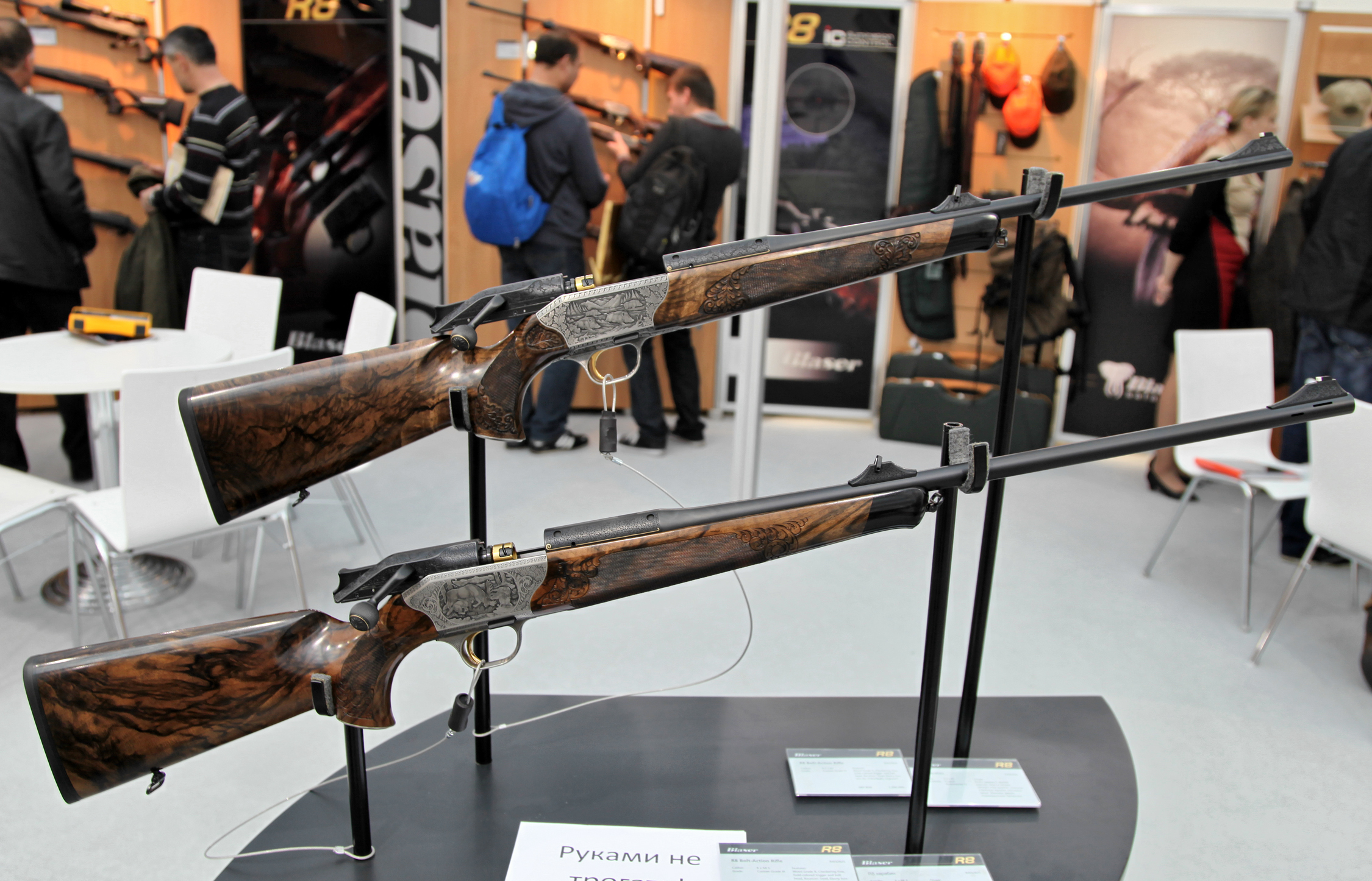 A 9,3x62 Blaser R8 Custom Grade IV (back) and an 8x68 S Blaser R8 Custom Grade II (front)